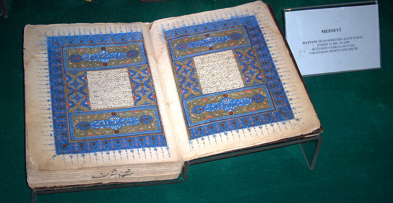 Masnavi-ye Manavi (Spiritual Couplets), 1490; Mevlâna mausoleum; Konya, Turkey.